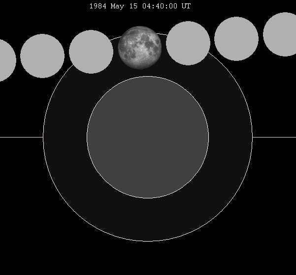 May 1984 lunar eclipse chart of moon's path through the earth's shadow. thumb